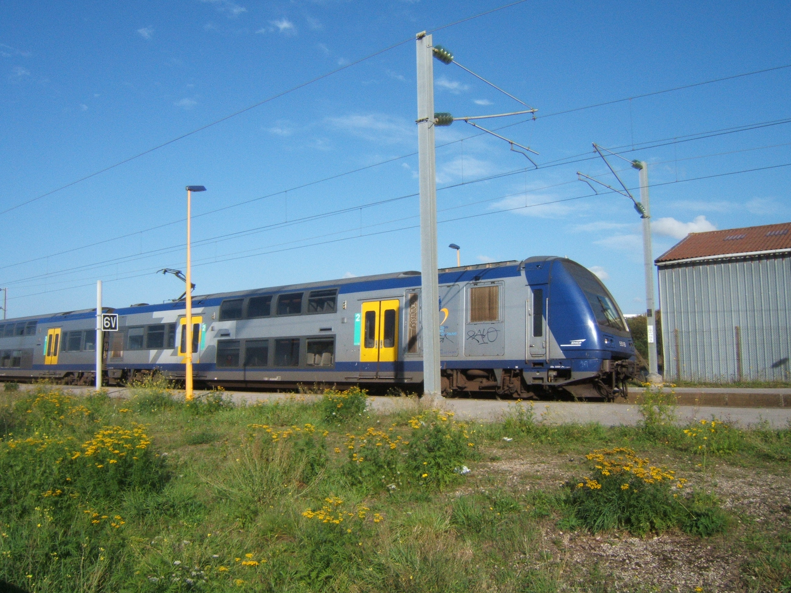 TER doubledecks train on the coastal line Calais Boulogne, Bij Wimille station